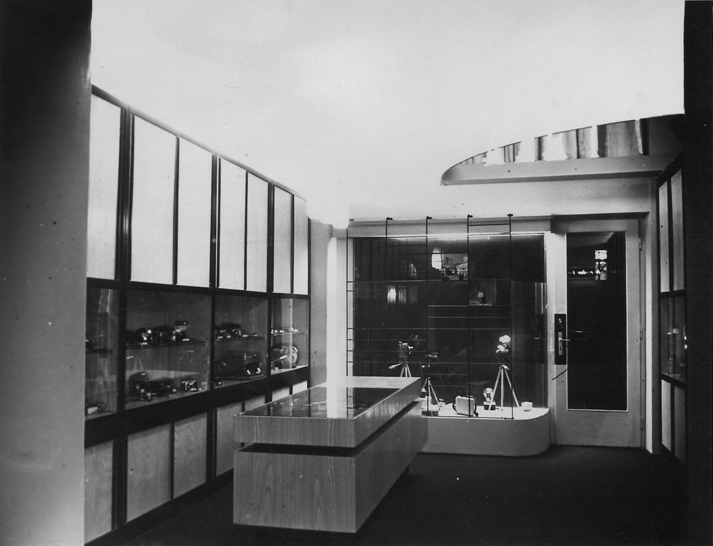 Interior of the first photo store Cinephoto in the palace of Albania, the design of Gojko Varda from the beginning of the sixties of the 20th century.